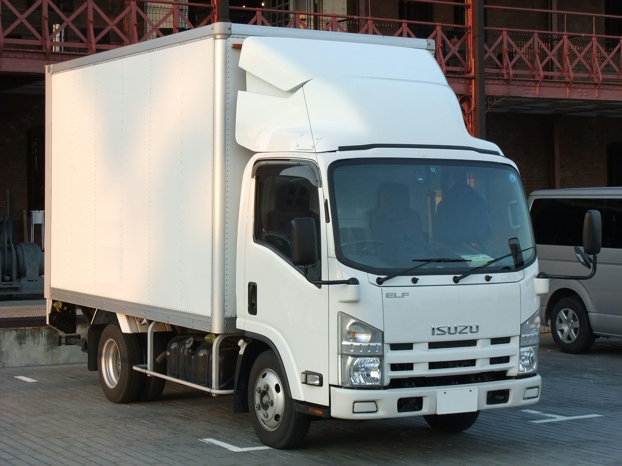 ISUZU, ELF, Grade SG, （It is called N-series or REWARD excluding a Japanese market.）